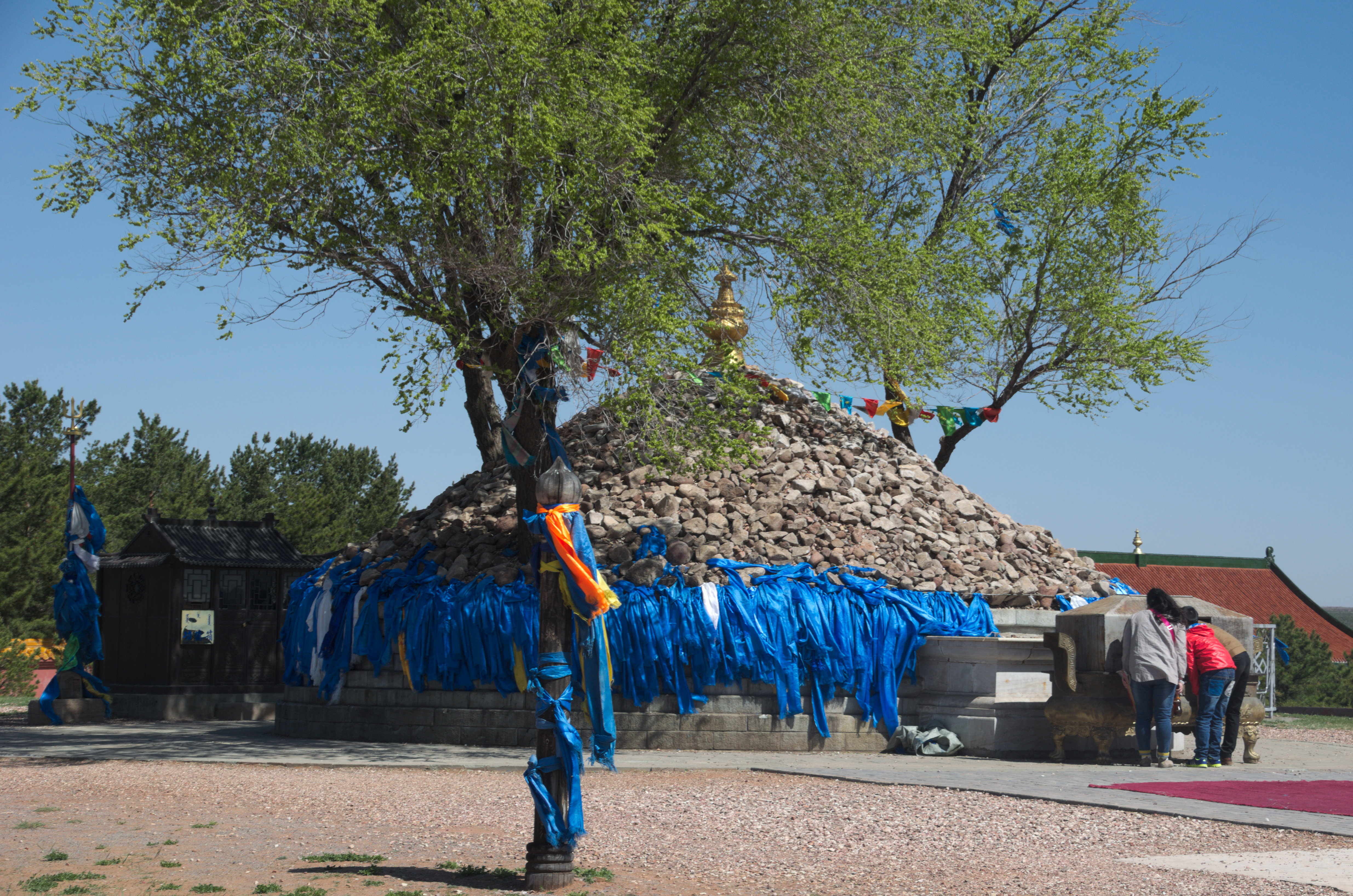 Ovoo of the Mausoleum of Genghis Khan, in Dongsheng district, Ordos, Inner Mongolia, China.